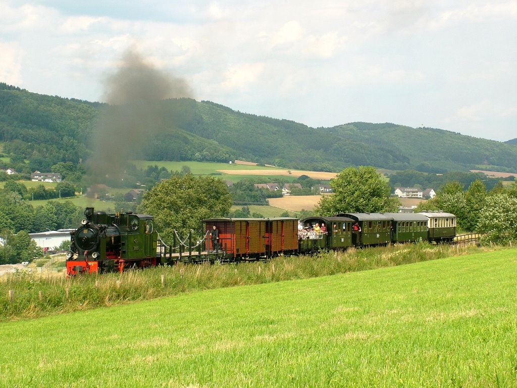 Museum train of the Märkische Museums-Eisenbahn between Seissenschmidt and Hüinghausen, 14.07.2007